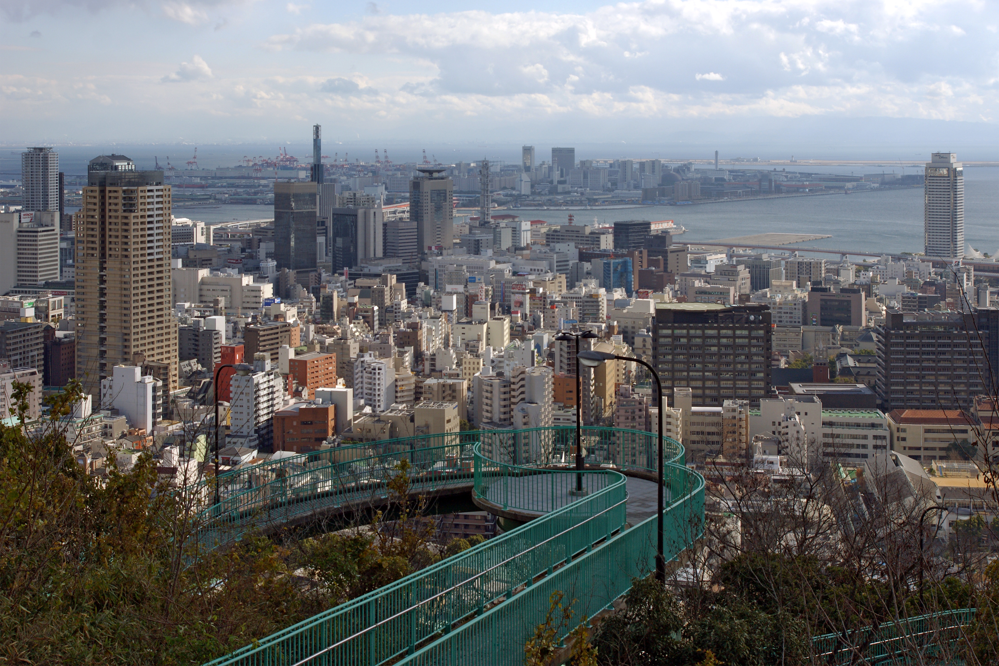 Venus Bridge in Kobe, Hyogo prefecture, Japan